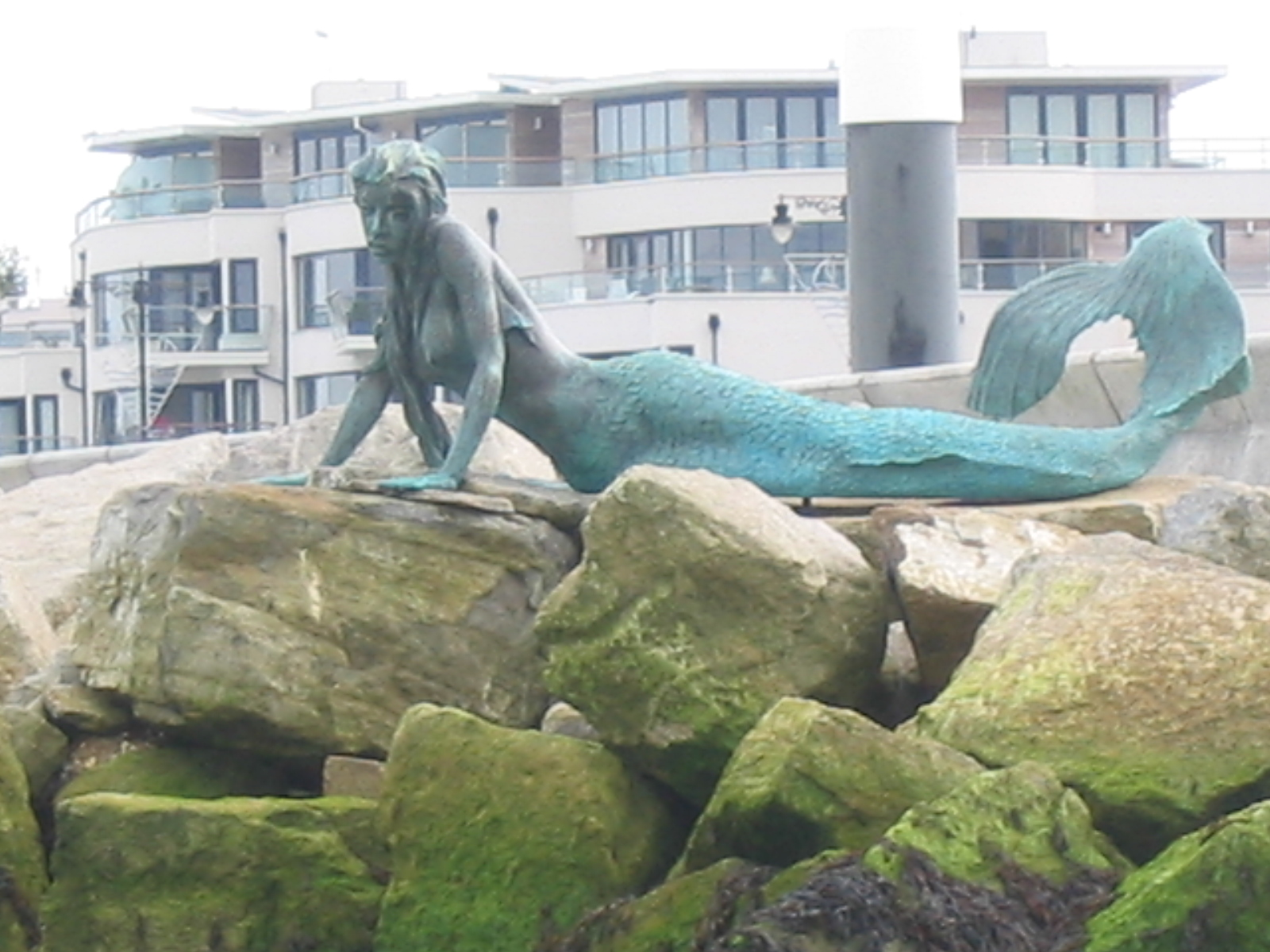 Bronze statue of mermaid on the sea wall of the Royal Yacht Squadron 'Jubilee Haven' marina, Cowes, Isle of Wight. Statue by Jonathan Wylder, modelled by Olympic swimmer Sharron Davies.